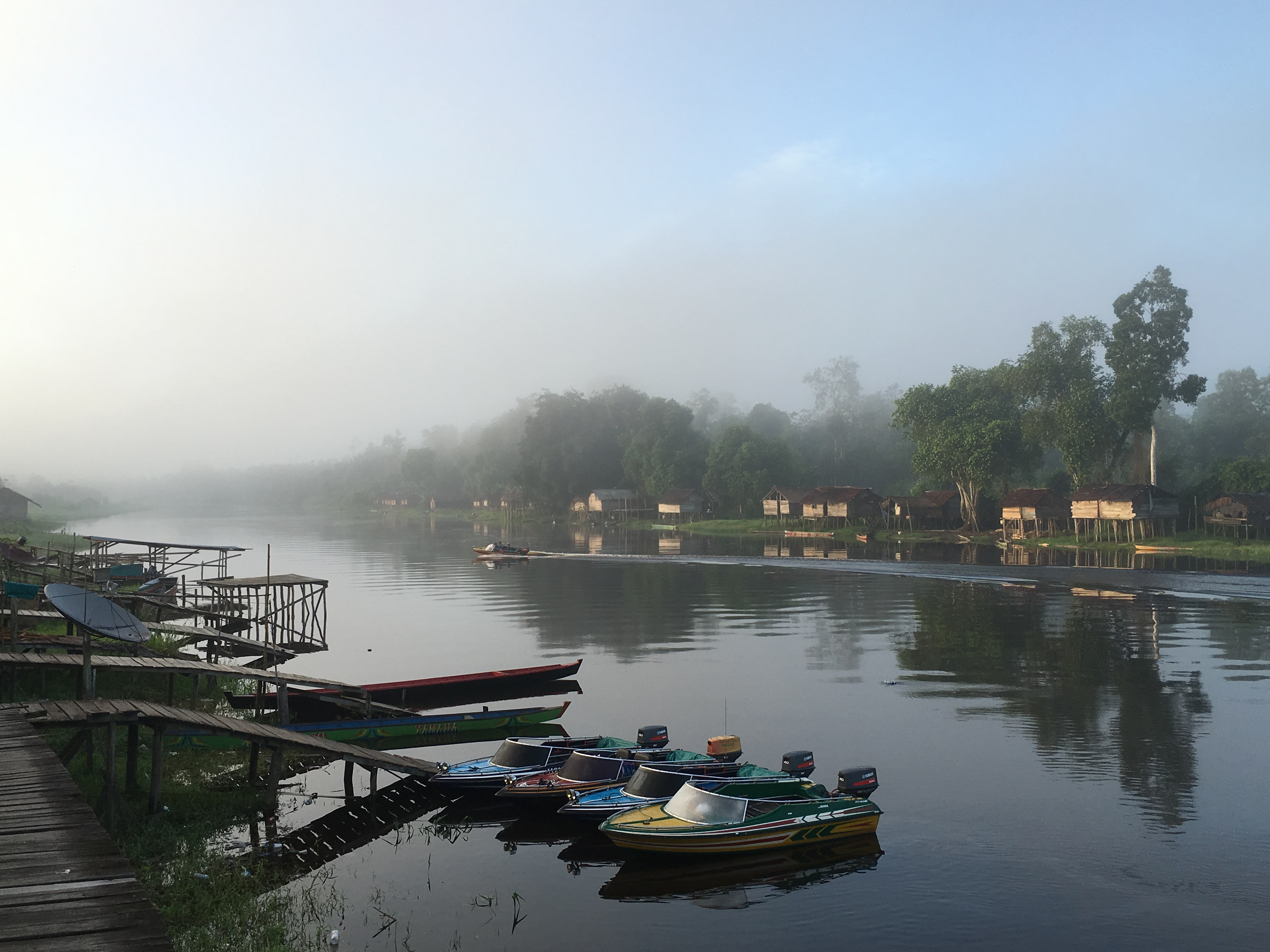 Morning in Senggo Village, Mappi Regency, Papua, Indonesia.